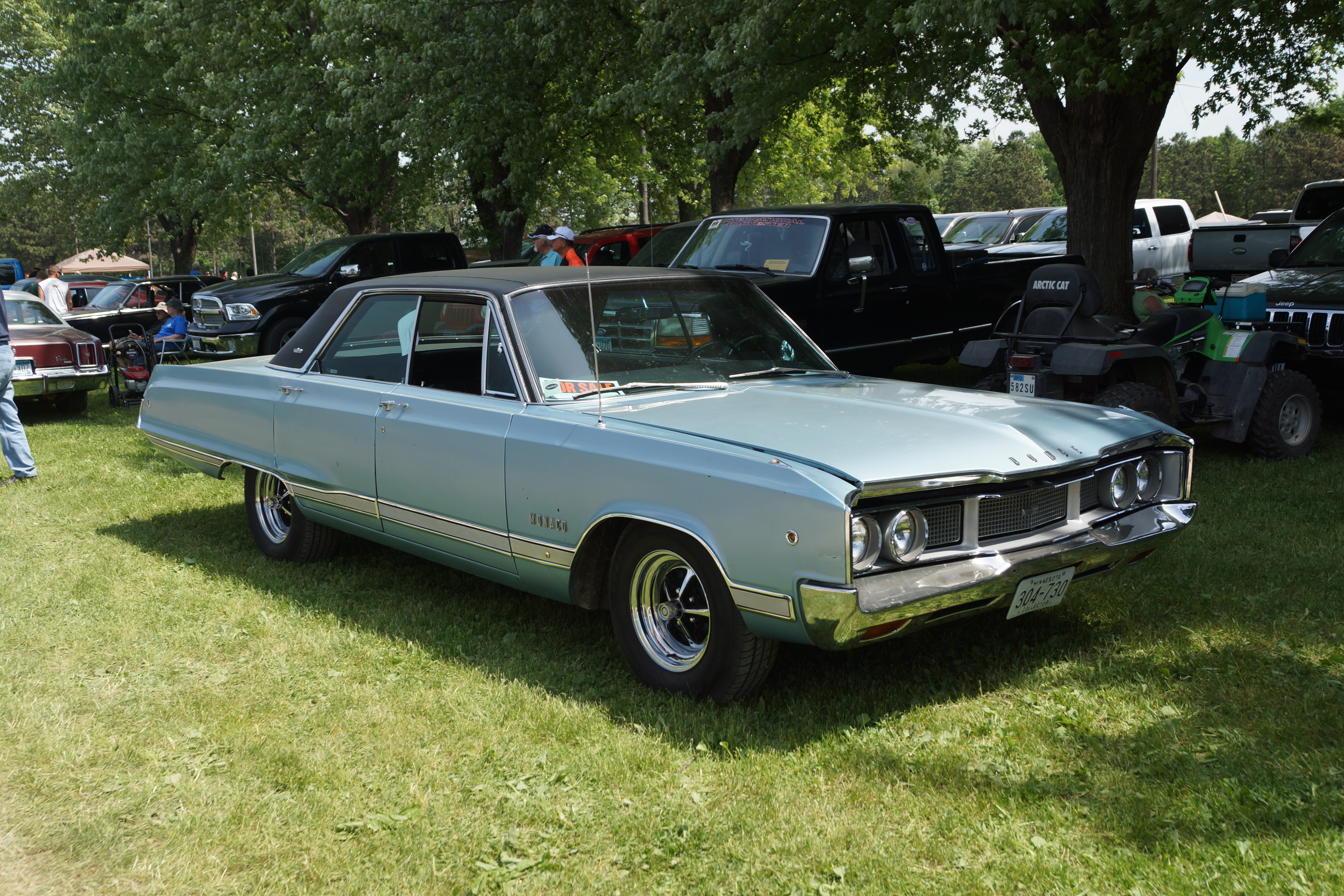 Midwest Mopars in the Park National Car Show & Swap Meet Dakota County Fairgrounds Farmington, Minntesota June 2-4, 2017